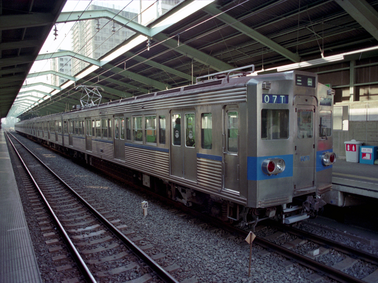 Bureau of Transportation Tokyo Metropolitan Government unit 6071 at Nishidai station